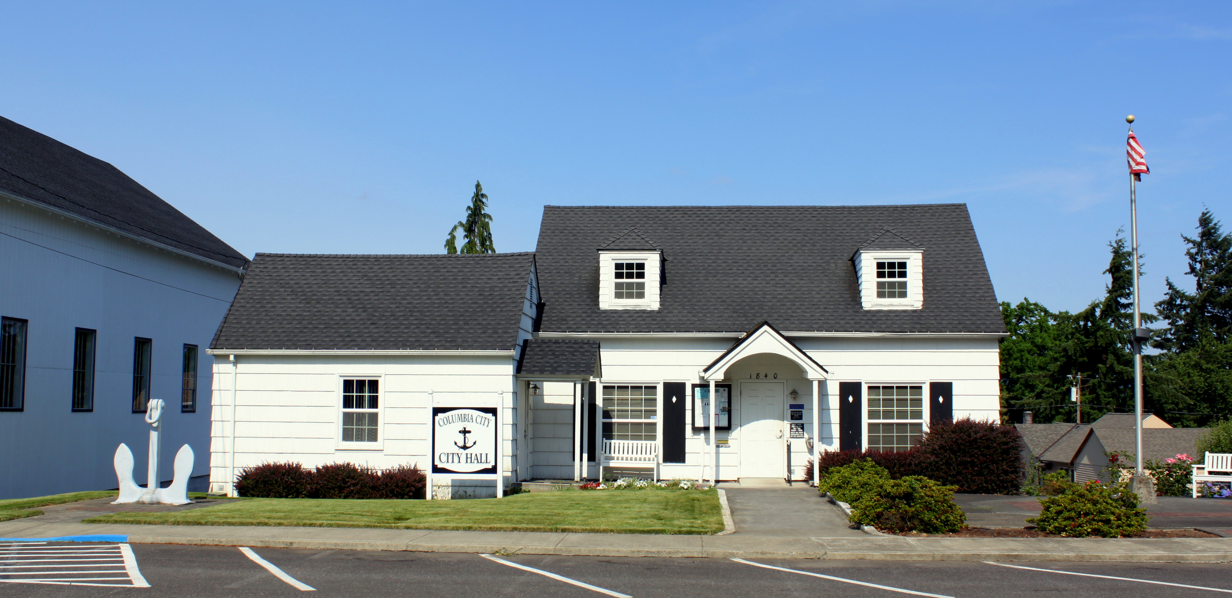 City Hall in Columbia City, Oregon.